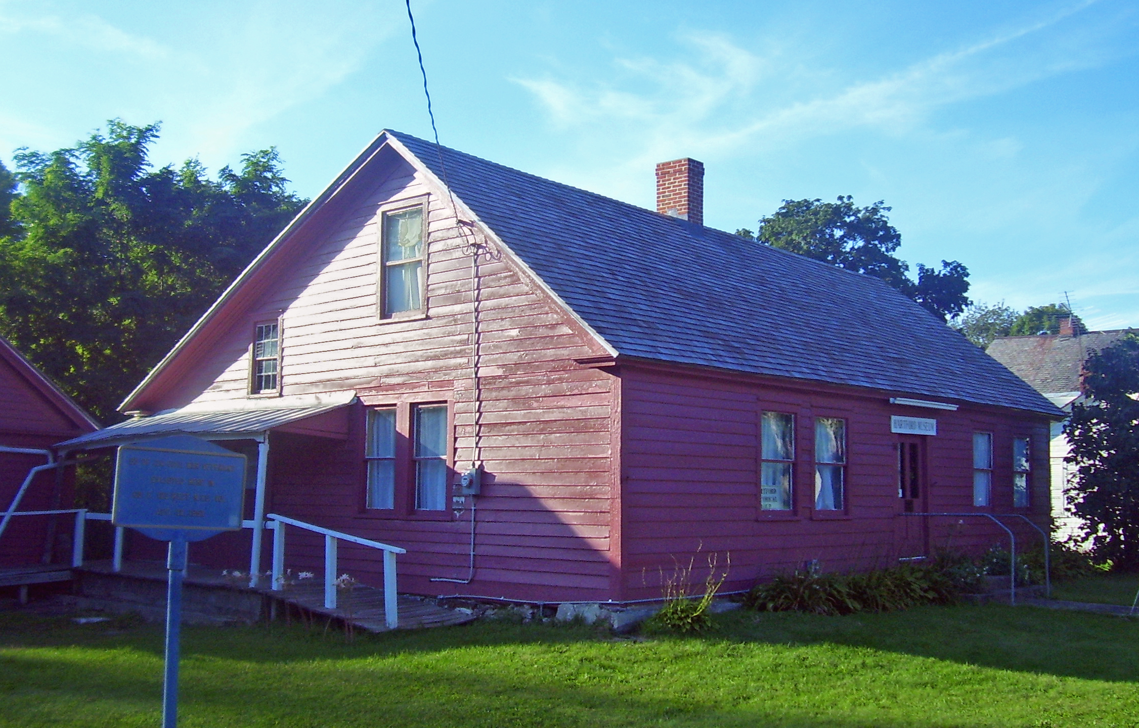 Elisha Straight HouseHartford, NY, USA